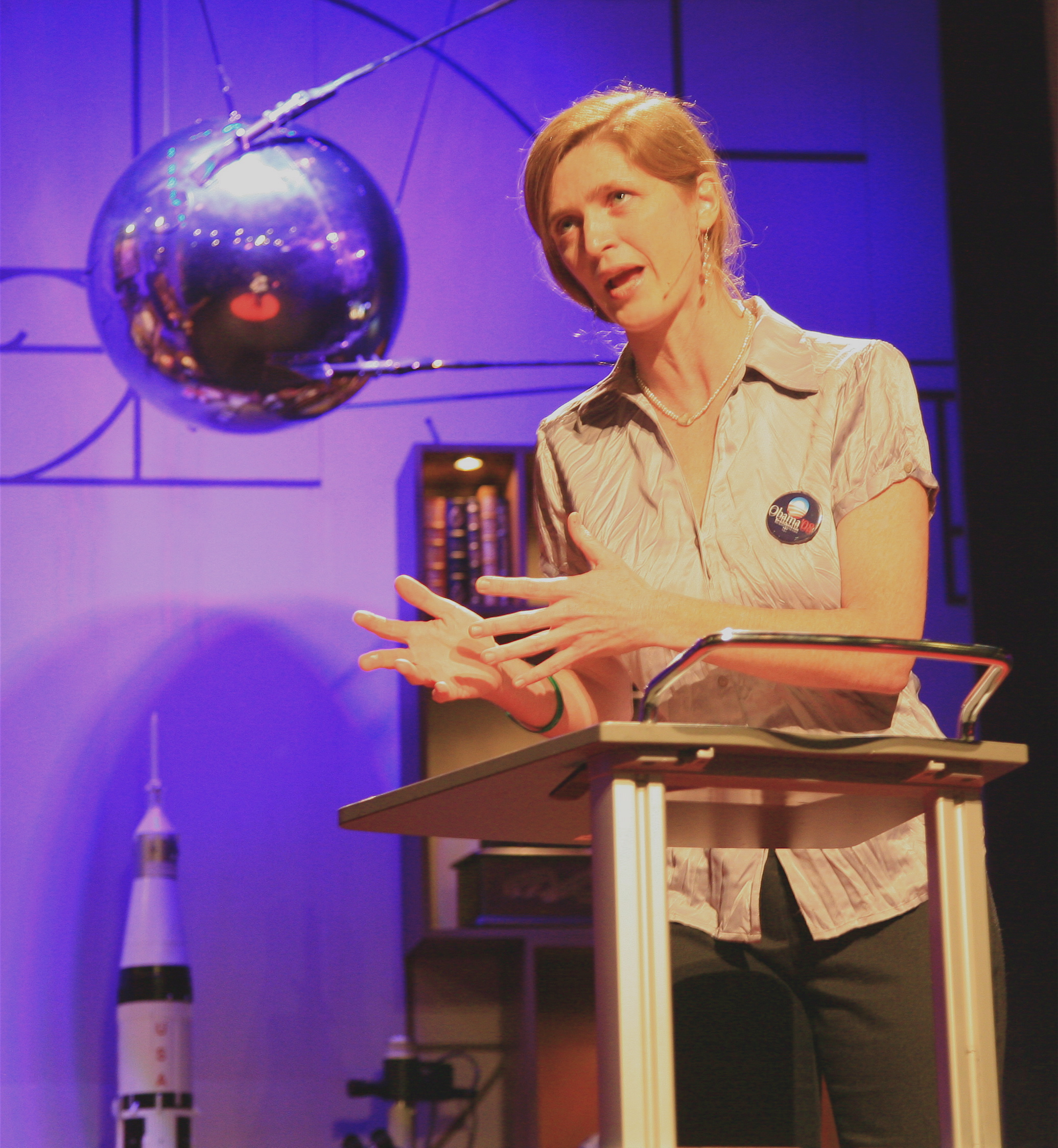 Giving perhaps her last public speech as an Obama advisor. On Monday, she trusted a British journalist to keep her comments off the record as she proceeded to call Hillary a monster who will stoop to anything. Moments ago, she resigned from the Obama campaign (from Reuters News) At TED, she spoke of the need for an endangered peoples' movement. During the Rwanda genocide where 800K people were killed, the NYT asked Representative Schroeder about the U.S. inaction, and in a stark moment of candor, she said that hundreds of US citizens were calling about ape and gorilla deaths in Rwanda, but nobody was calling about the people. Samantha Power argues that U.S. foreign policy is utterly broken and that the U.S. must return to a human rights-centric foreign policy or risk the scorn of the world community. She said that today's student-led anti-genocide movement is larger than that which opposed Apartheid. With divestment pressure and a 1-800-Genocide phone link to your local representative, their goal is put pressure on the Bush administration to take action in Darfur.